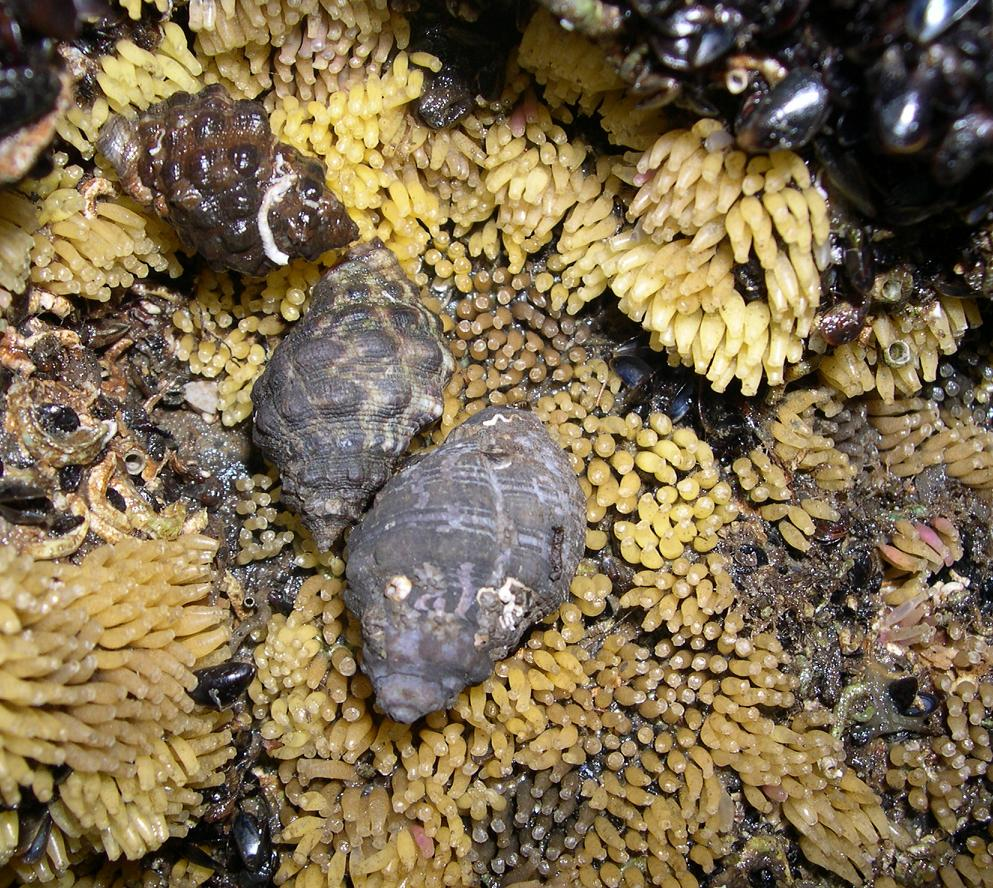 Two rock shells Thais clavigera (Küster, 1860) (Gastropoda: Sorbeoconcha: Neogastropoda: Muricidae) and their egg capsules. A darker shell on the left above is probably Thais bronni (Dunker, 1860). Loc: Miura Peninsula , Kanagawa, Honshu, Japan. ja: イボニシとその卵嚢群。左上の黒っぽい貝はレイシガイ。神奈川県三浦半島。